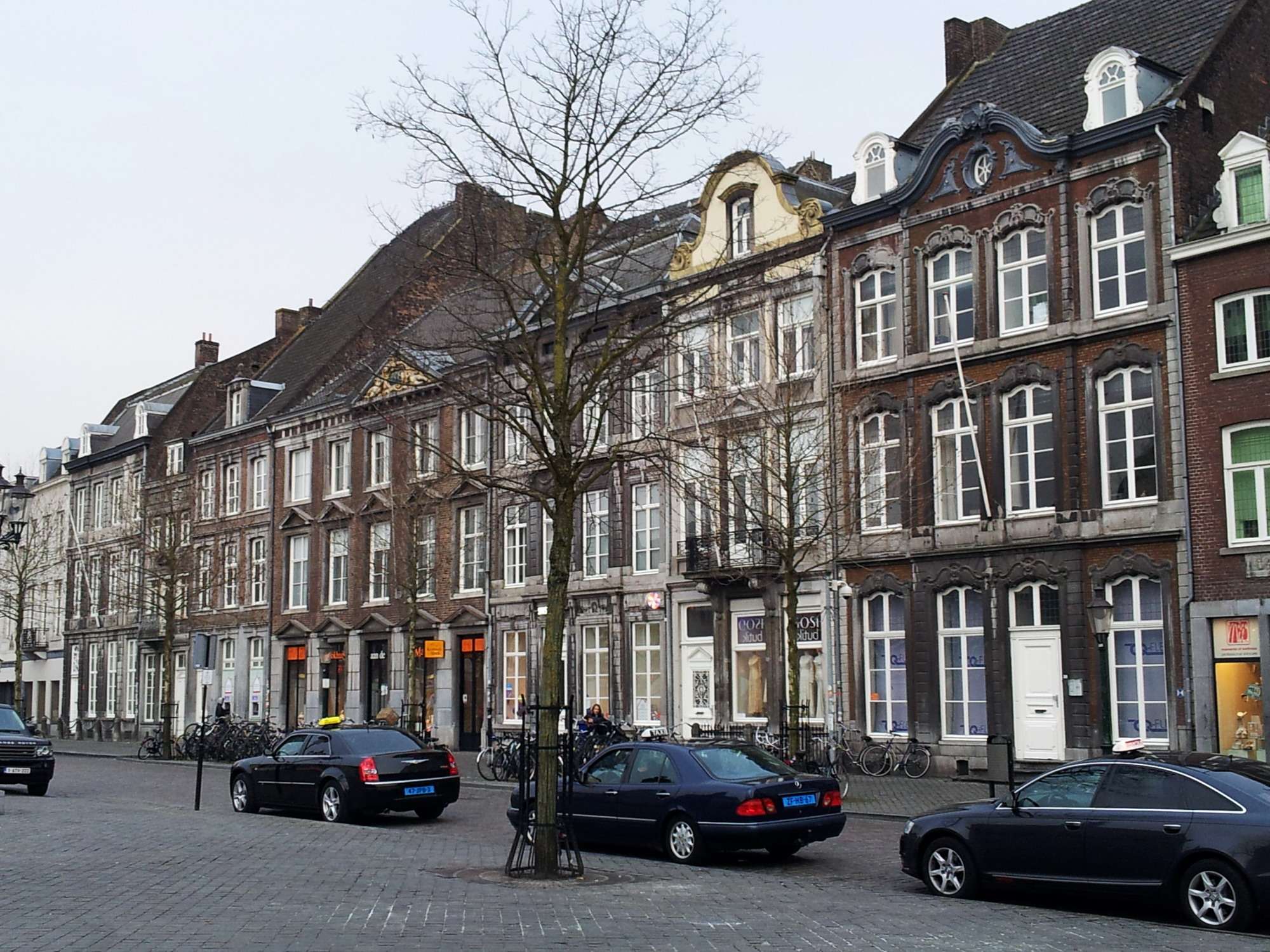 Maastricht, the Netherlands. View of Western part of Markt with several 17th and 18th century listed houses.